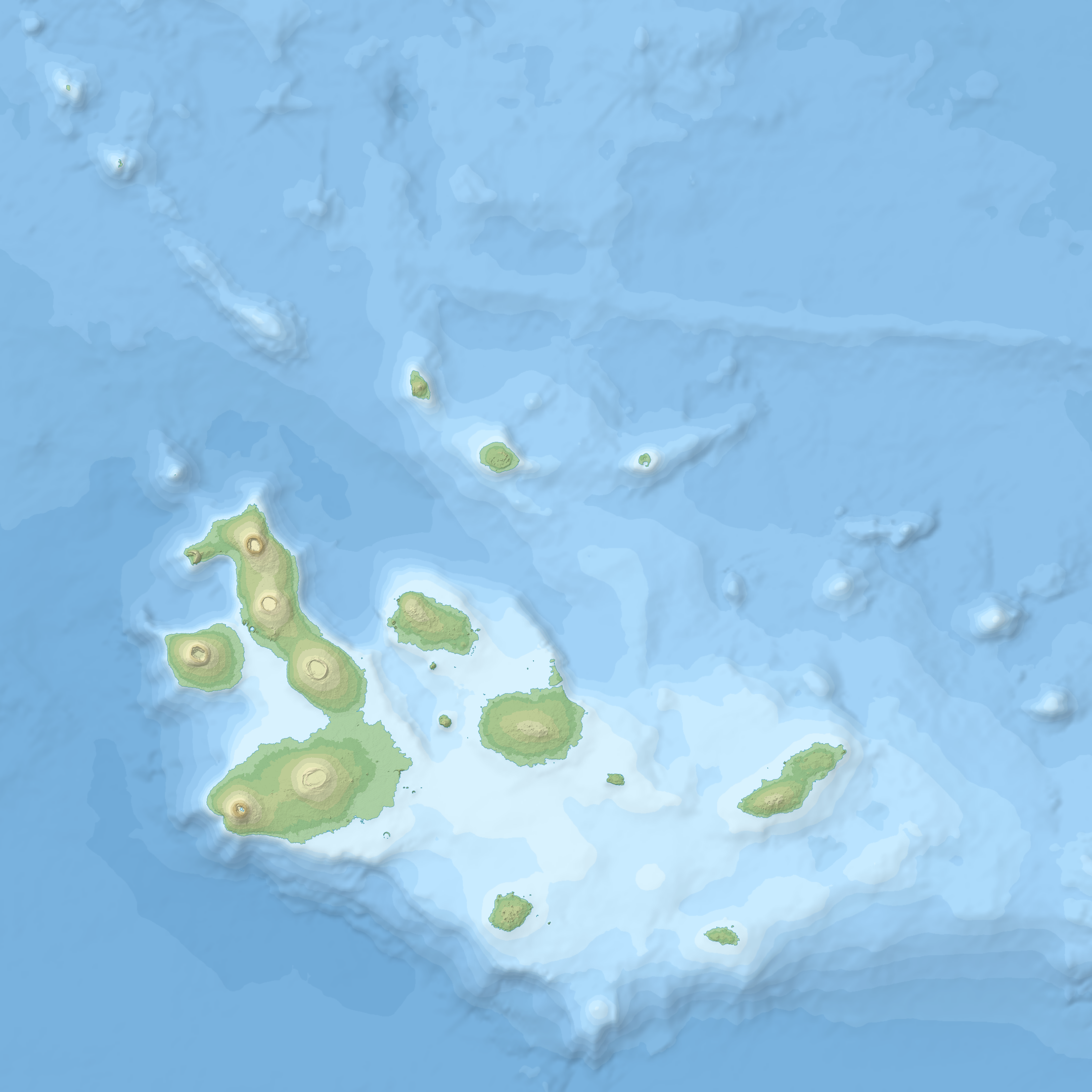 Topographic and bathymetric map of the Galápagos Islands, Ecuador.